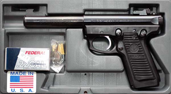 Photo © by Jeff Dean